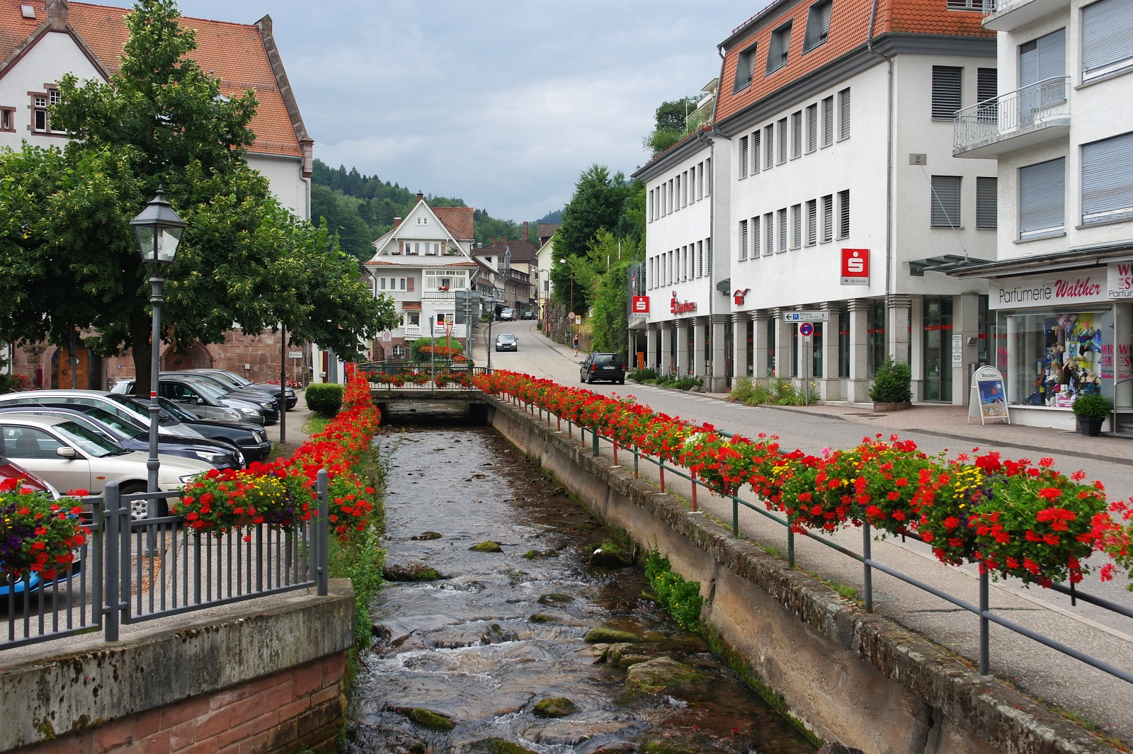 River Alb in Bad Herrenalb, Baden-Württemberg, Germany